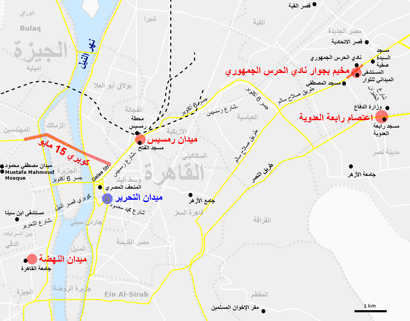 Selected places in Cairo, related to pro Morsi protests in July and August 2013. For an English version of this map